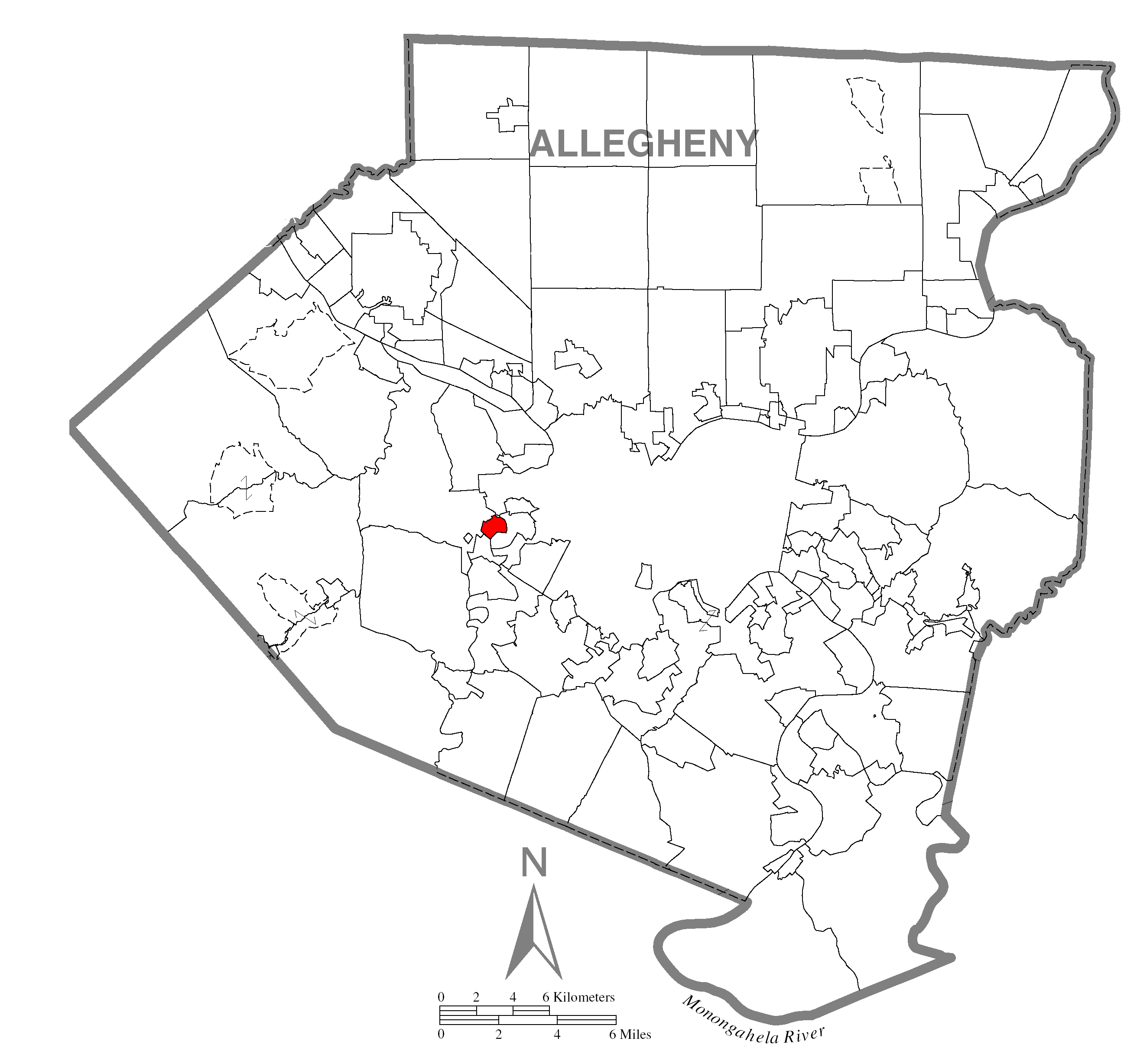 A map of Allegheny County showing Thornburg, Pennsylvania (alternate) highlighted on the map.